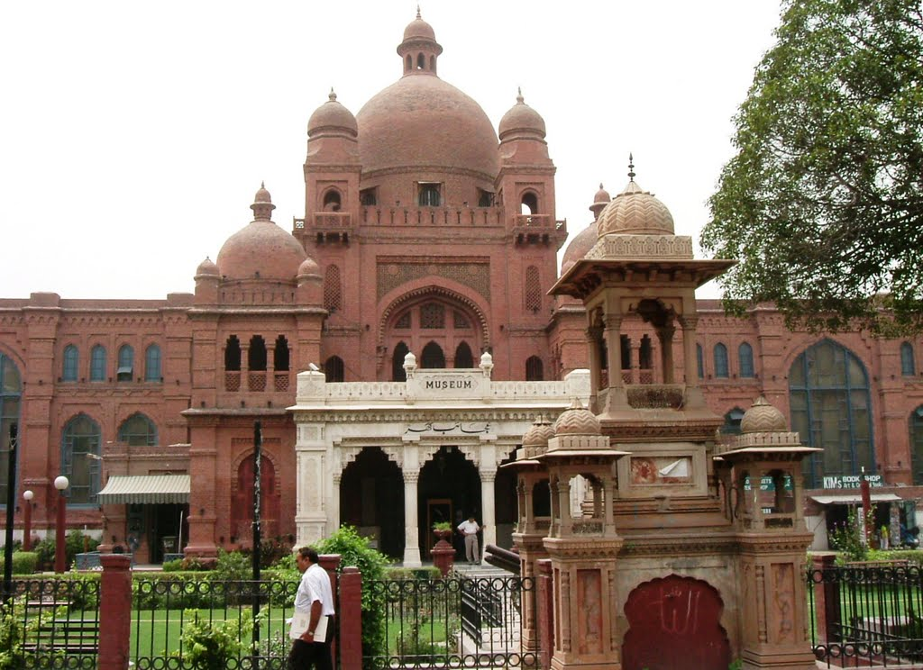 Lahore Museum